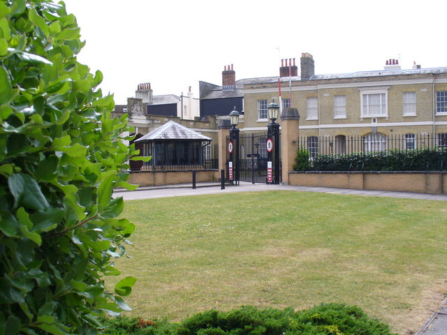 Court Buildings. Grand brick buildings which were the original home of the Ordnance Survey